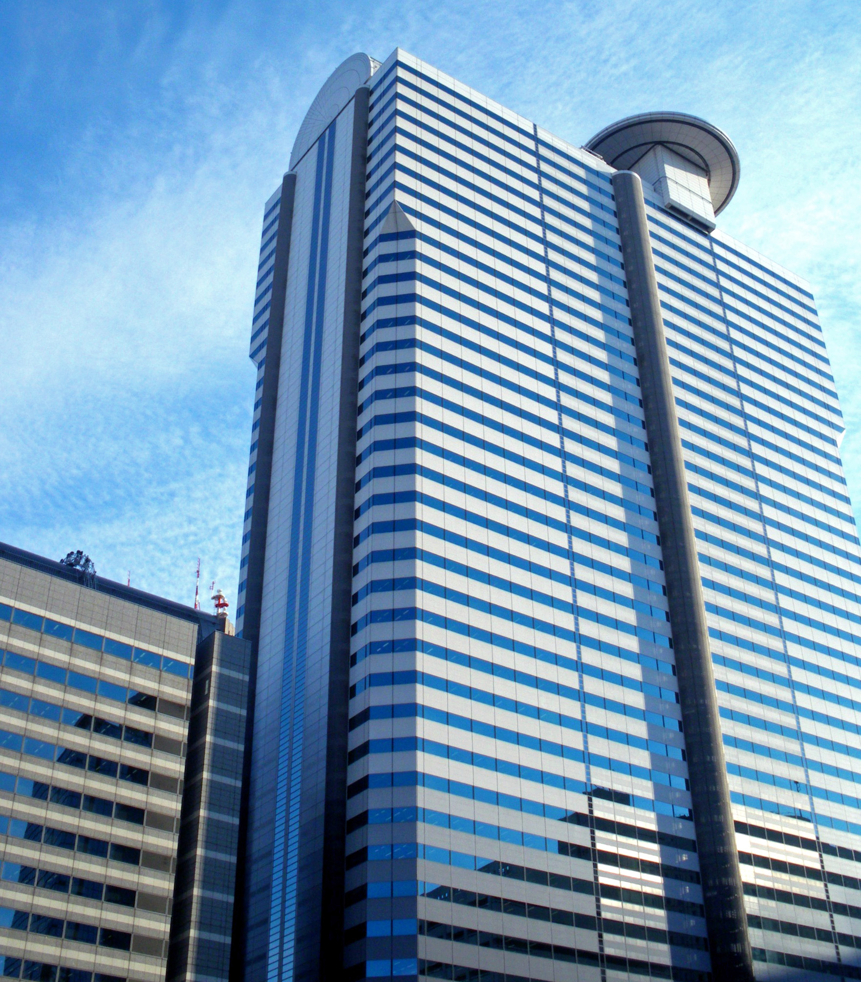 photo of Shinjuku i-land tower,one of the skyscrapers in Shinjuku,Tokyo,Japan.